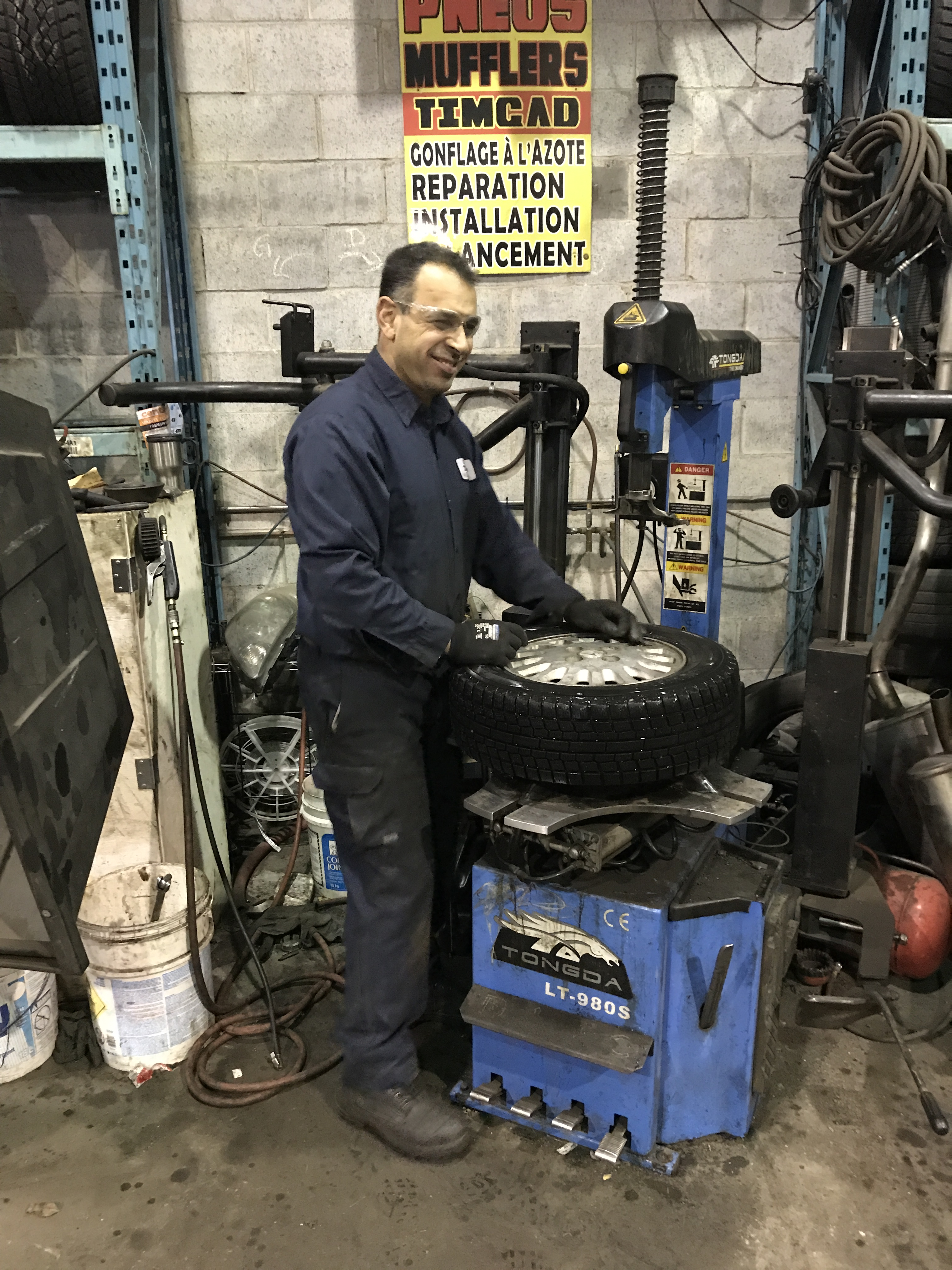 vulcanizer This is an image of "African people at work" from Algeria